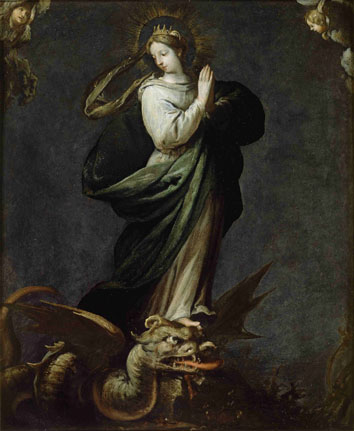 Saint Margaret of Antioch